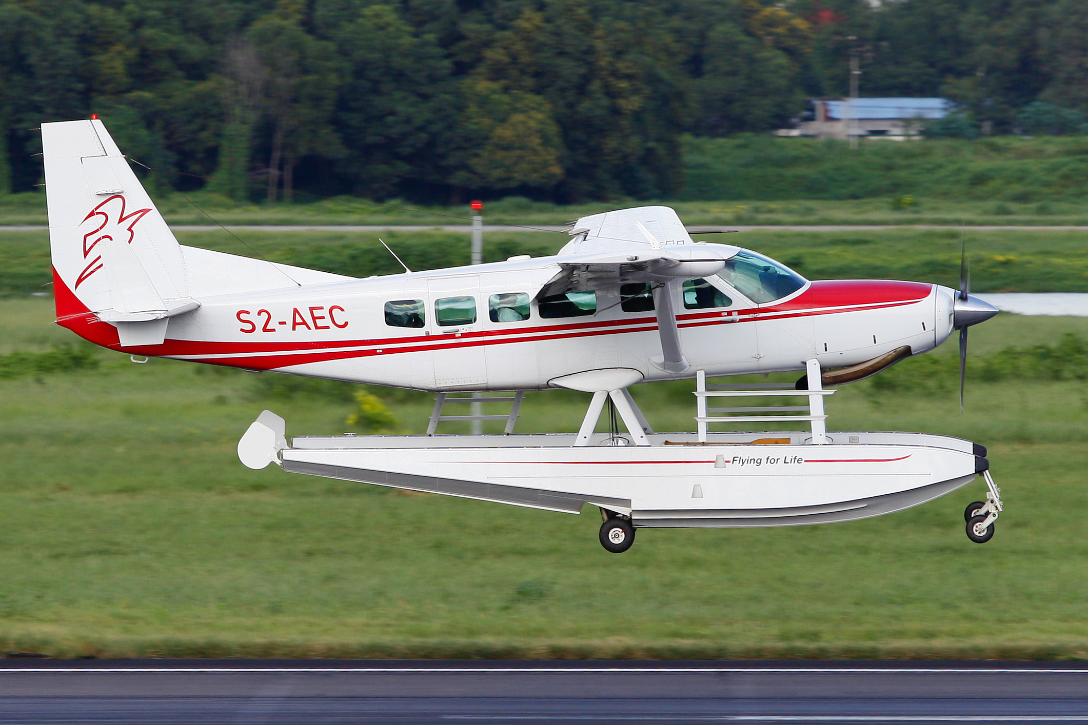 Mission Aviation Fellowship Cessna 208 Caravan S2-AEC Landing at Hazrat Shahjalal International Airport Dhaka VGHS / DAC